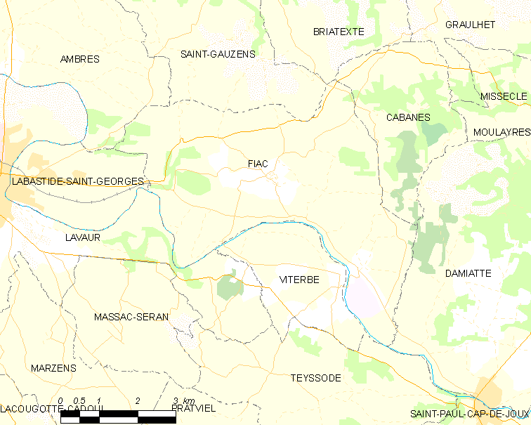 Map of French municipality Fiac